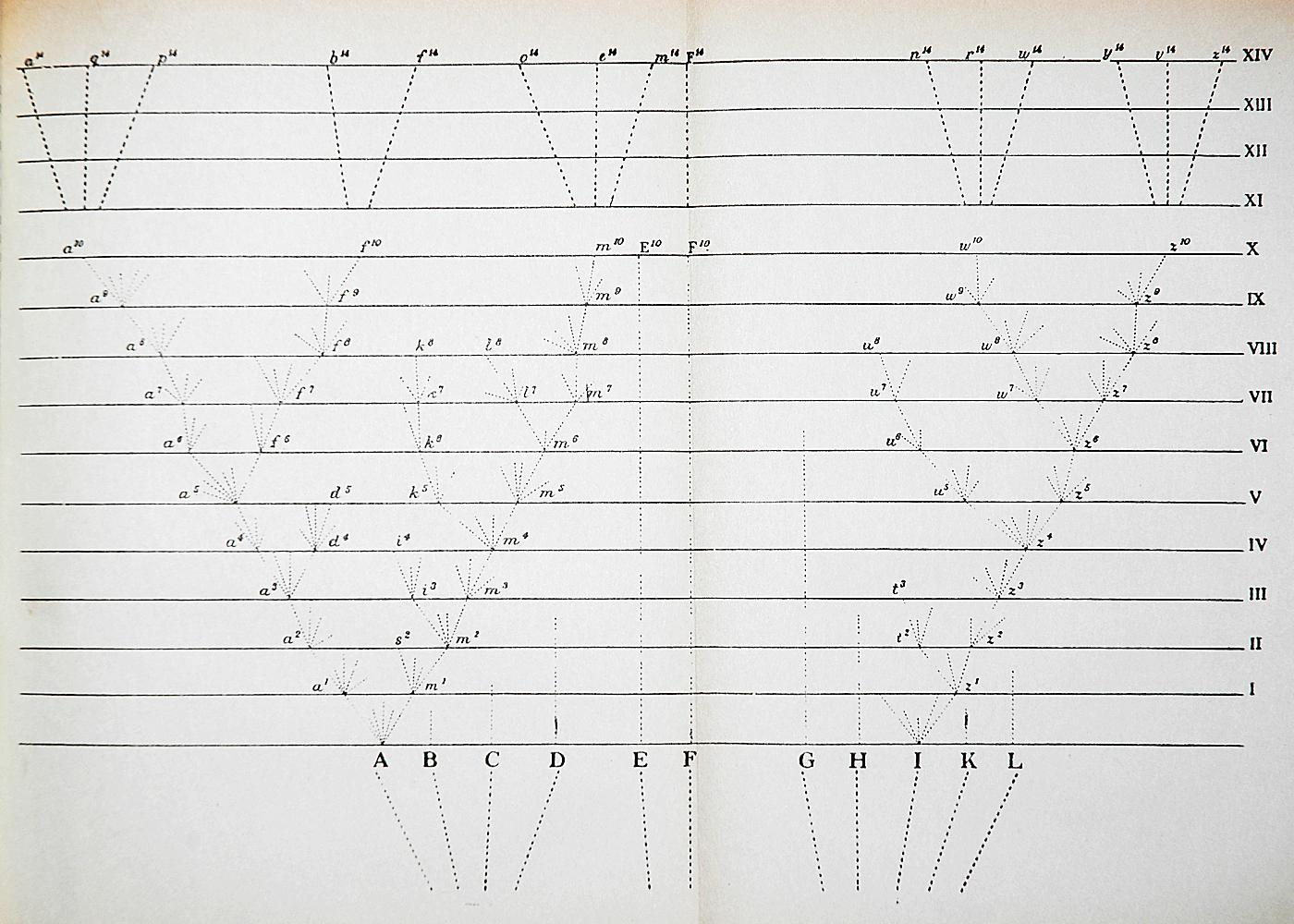 Diagram representing the divergence of species